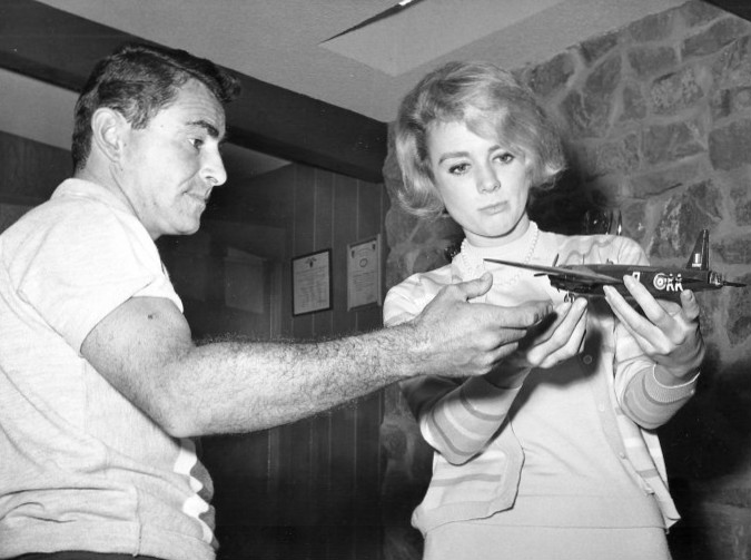 Photo of Rod Serling and actress Inger Stevens with Serling's model airplane collection at his home. Stevens starred in The Twilight Zone episode "The Hitchhiker".